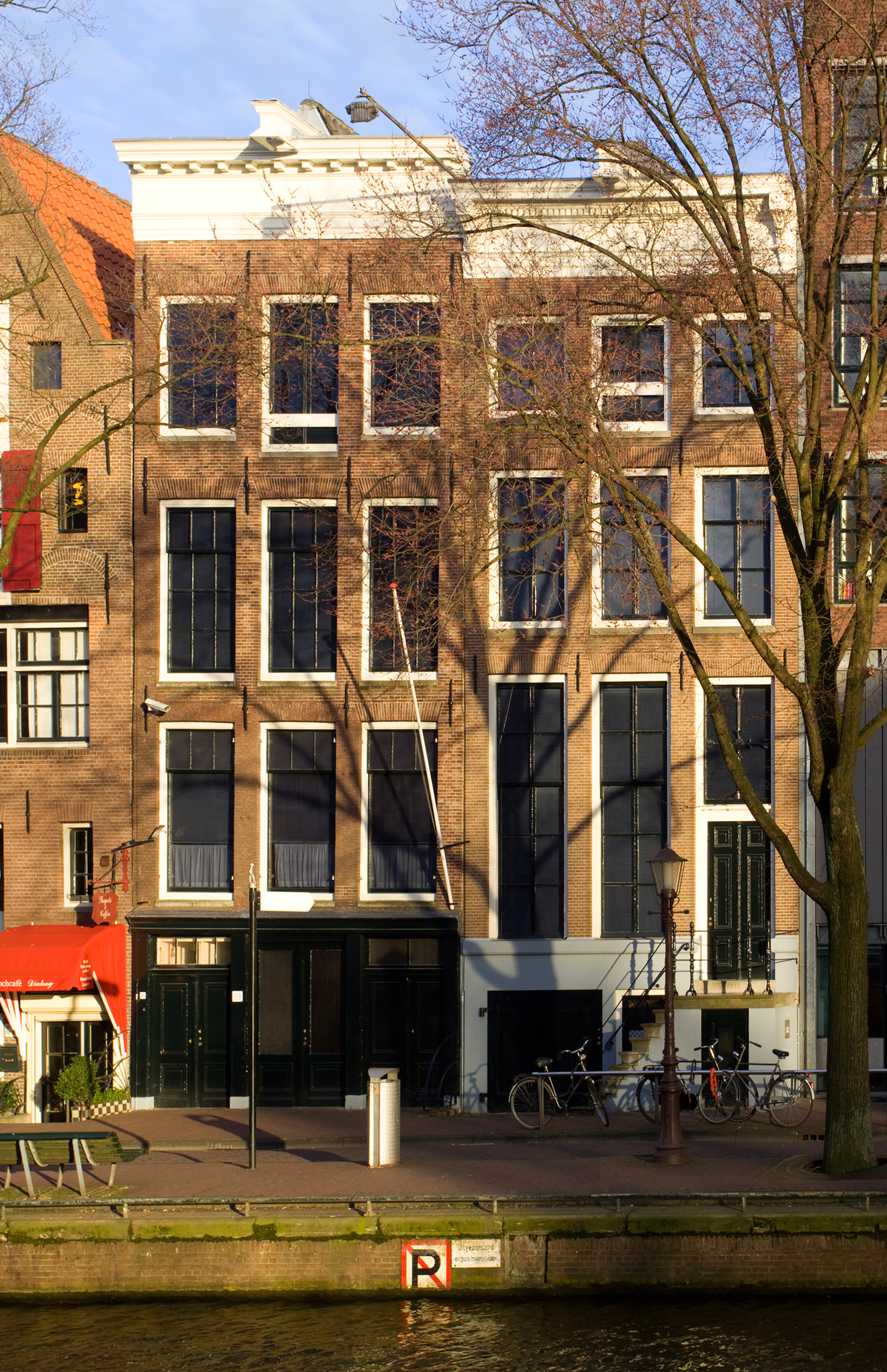 The Anne Frank House alongside the Prinsengracht in Amsterdam, the Netherlands.